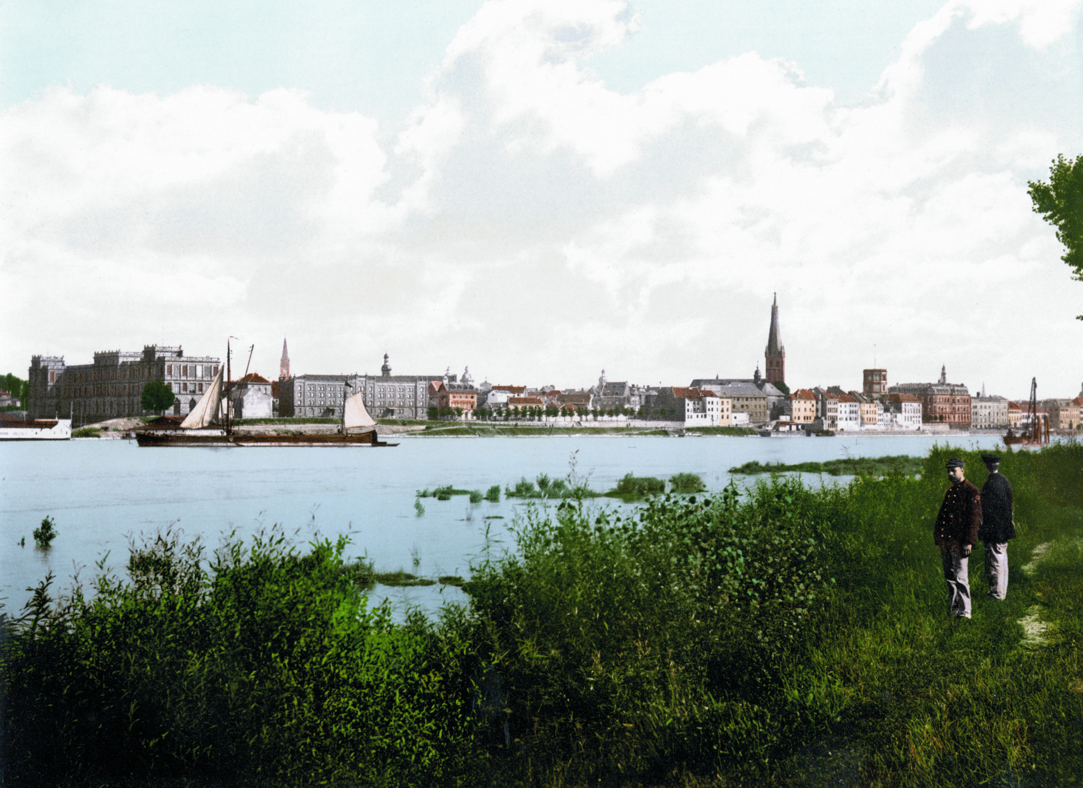 Düsseldorf